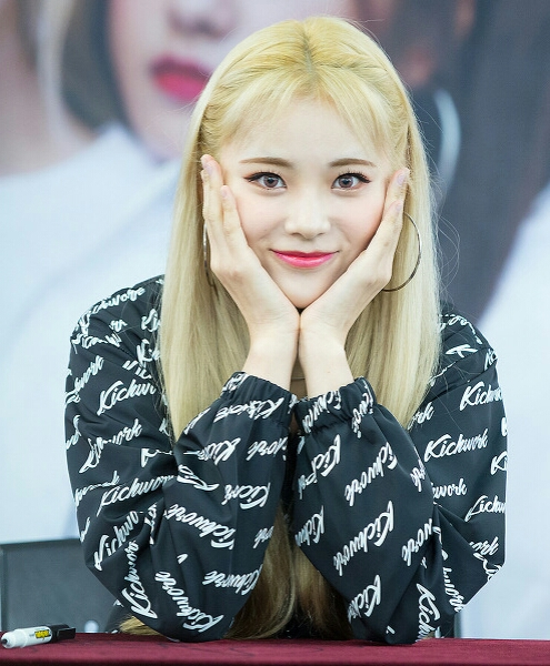 Jinsoul at Gimpo Fansigning on November 04, 2017.